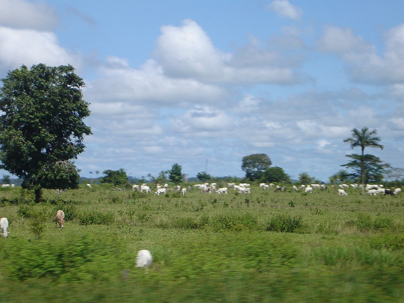 Cattlerasing near Ji-Paraná, Rondônia State, Brazil.